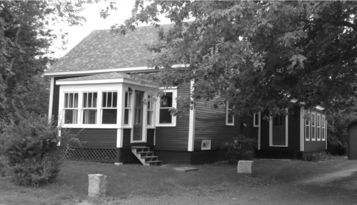 Lewis House, 62 Chapel Street, Annapolis Royal, Nova Scotia